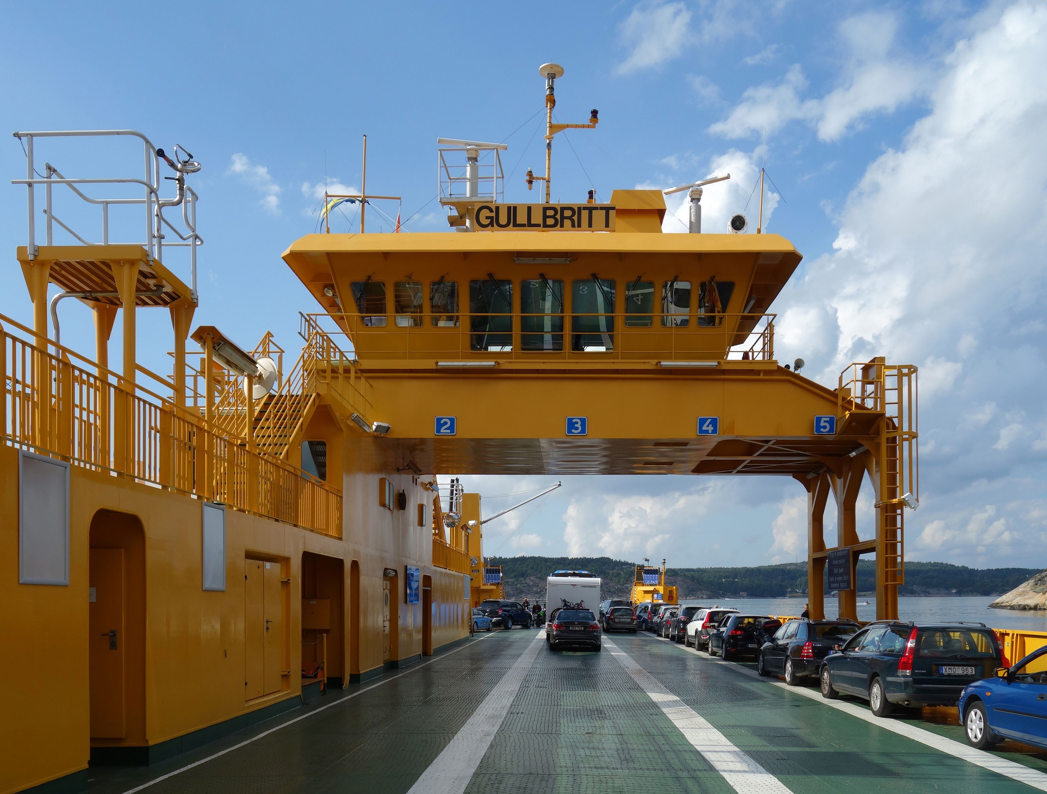 Bridge and deck of ferry M/S Gullbritt on Gullmarsleden crossing the Gullmarn fjord in Lysekil Municipality, Sweden.